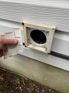 If plastic flaps are at the outside end of the duct, one maybe able to flex, bend, and temporarily remove the plastic flaps, clean the inside surface of the flaps, clean the last foot or so of the duct, and reattach the plastic flaps. The plastic flaps keep insects and birds out of the dryer vent pipe. During cold weather, the warm wet air condenses on the plastic flaps, and minor trace amounts of lint sticks to the wet inside part of the plastic flaps at the outside of the building.